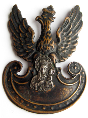 Cap badge of The Holy Cross Mountains Brigade (Brygada Świętokrzyska), a unit of the Polish underground NSZ (Narodowe Siły Zbrojne or National Armed Forces) during World War II, which refused orders to merge with the Home Army in 1944 and operated as a unit of NSZ-ZJ alliance. This cap badge belonged to a soldier in 1st Battalion (commanded by Cpt. Waclaw Janikowski ps. "Wilk" [Wolf] ) a unit of 204 pp Kielce Region (commanded by mjr Eugeniusz Kerner ps. "Kazimierz").